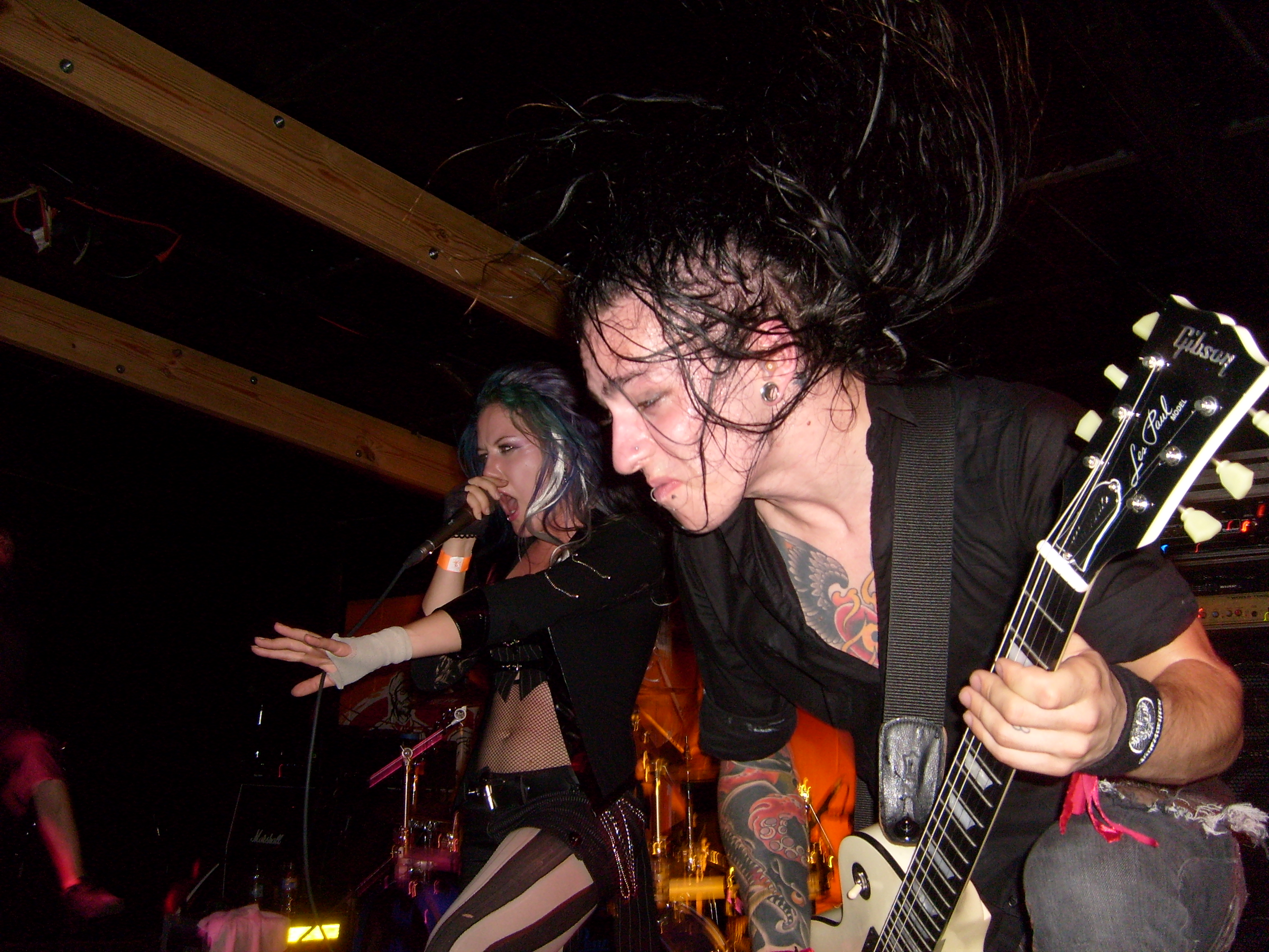 Alissa White Gluz of The Agonist.